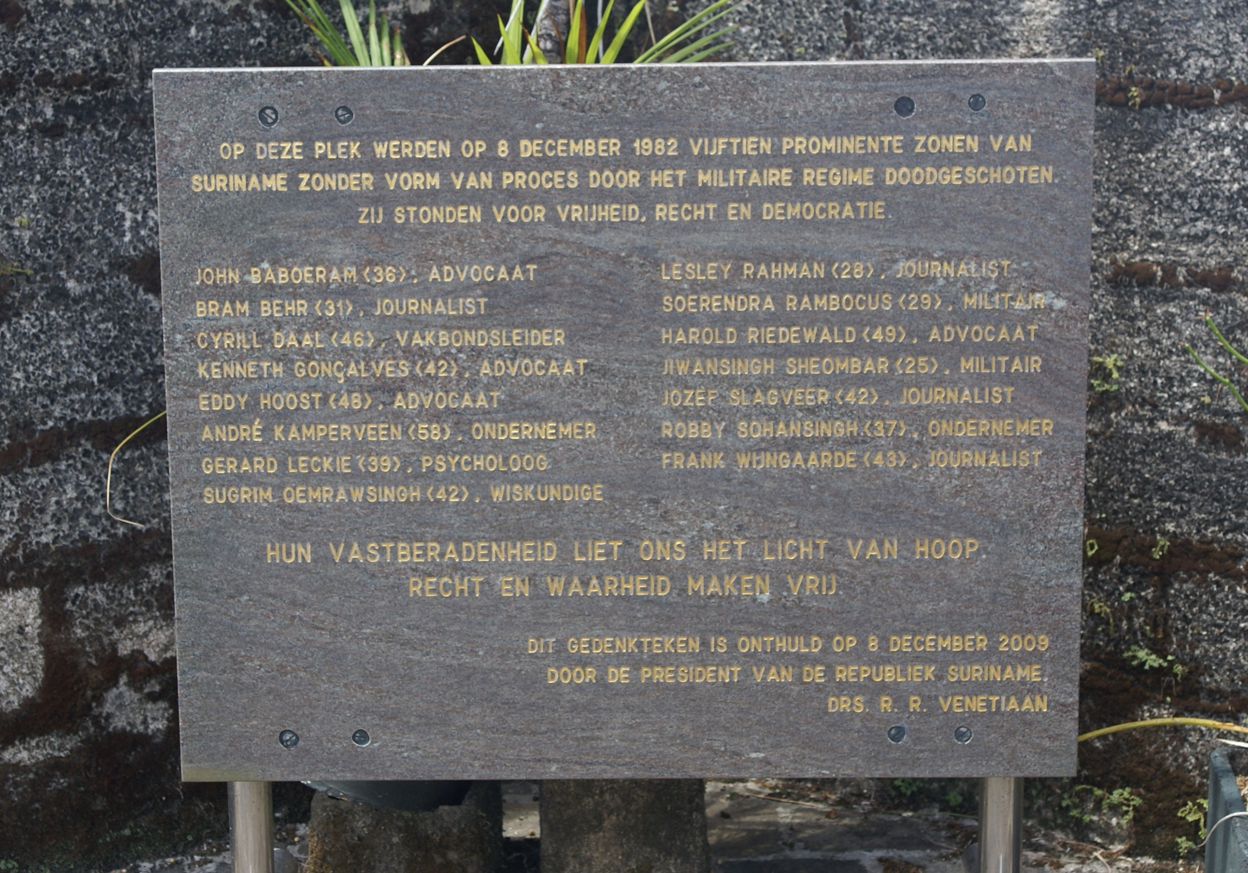 Monument for December killings, Fort Zeelandia, Paramaribo, Surinam.